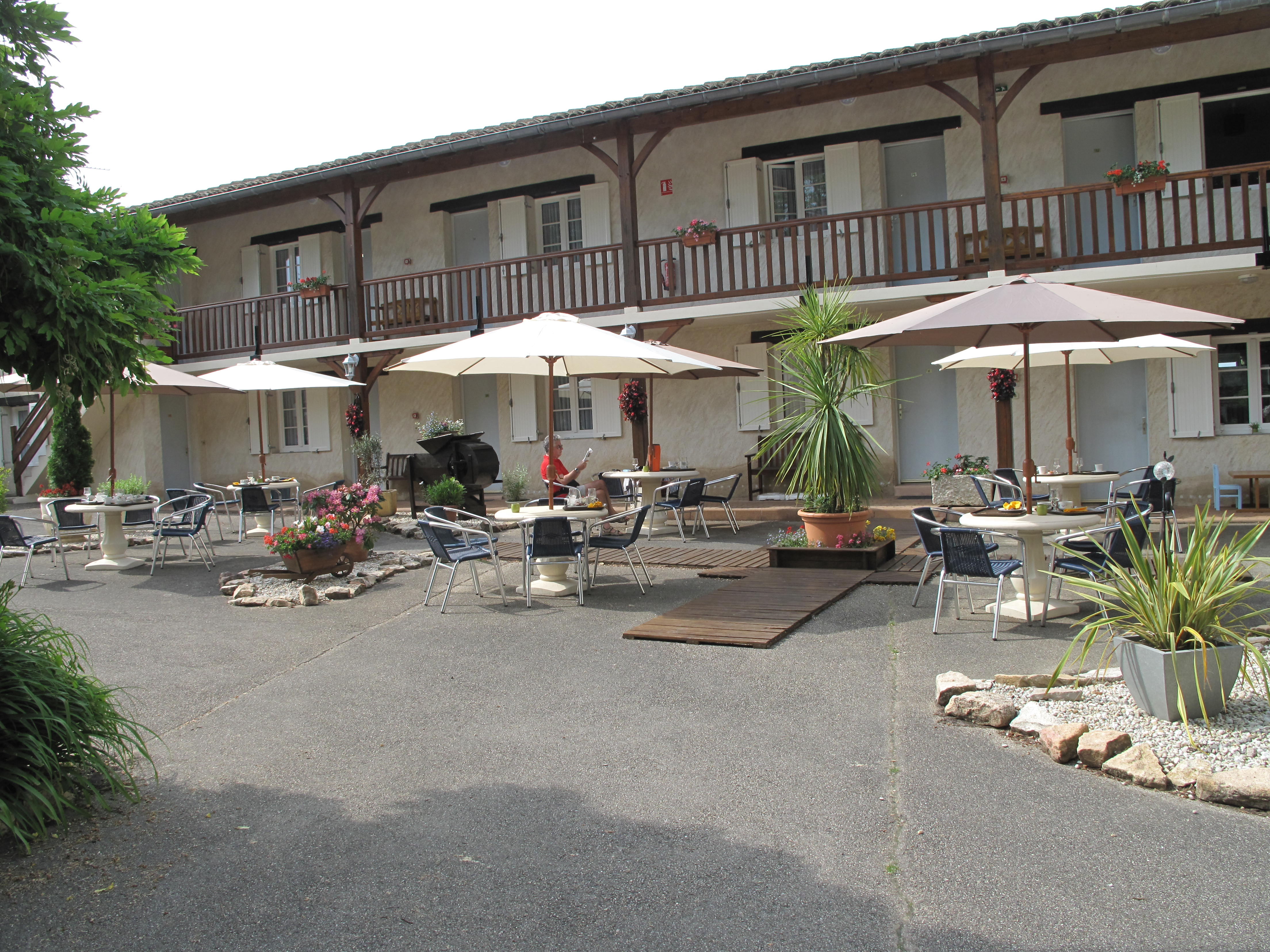 Yard of the hotel du Moulin de la Brevette (=Brevette mill hotel), Arbigny (Ain, France).